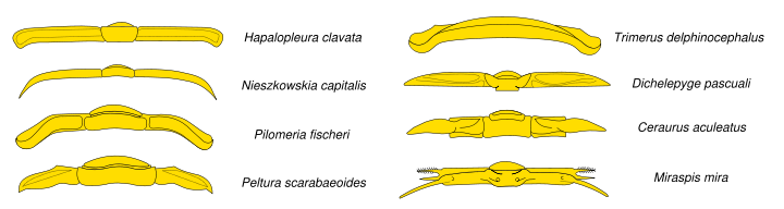 some examples of tergites (trilobite thoracical segments) Note: "Pilomeria" should be Pliomera